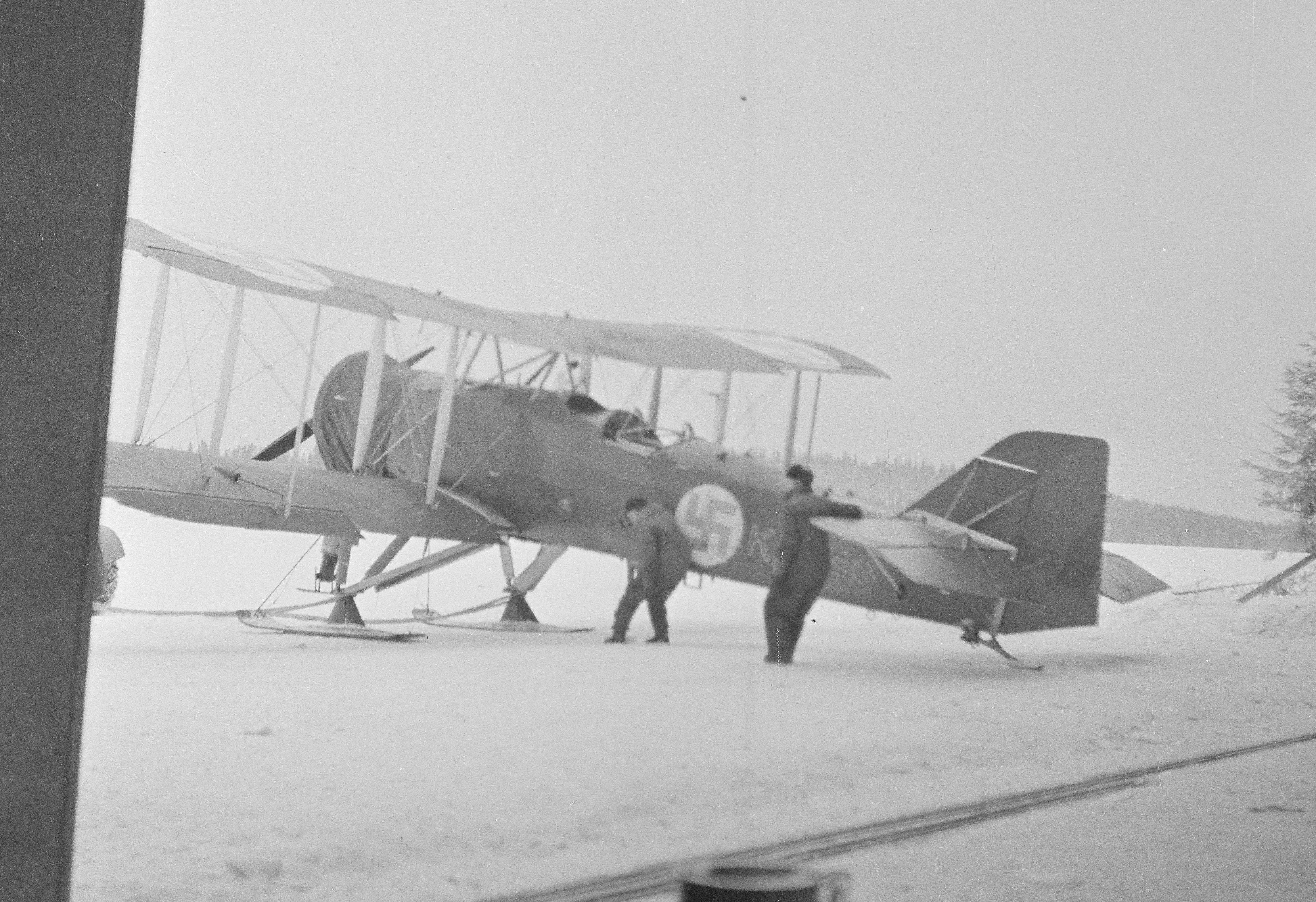 VL Kotka in Tikkakoski, Finland. (SA-kuva 6020)